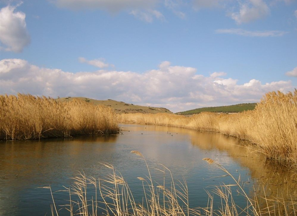 Marshes on Güzelhisar Stream near Aliağa, Turkey with, in the background, Birkitepe Hill, where the ruins of the ancient city of Myrina are located.